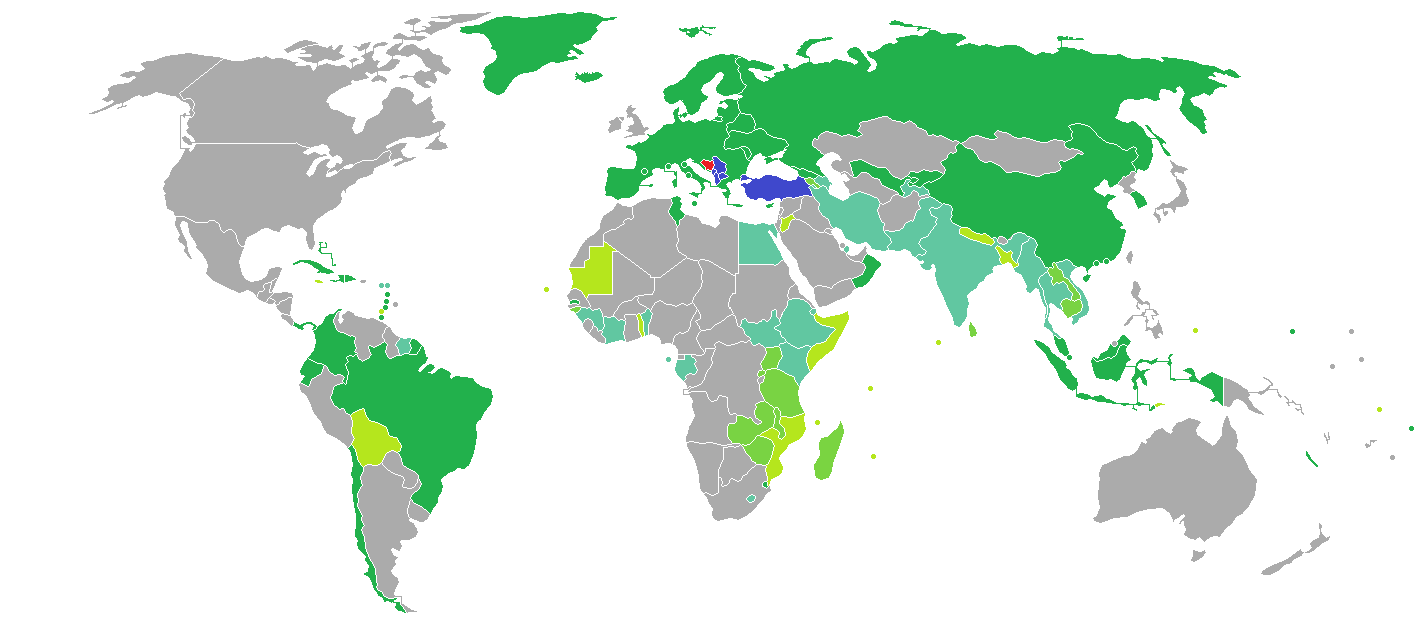 Visa requirements for Bosnia and Herzegovina citizens Bosnia and Herzegovina Visa free access Visa on arrival Electronic visa application eVisa Visa available both on arrival or online Visa required